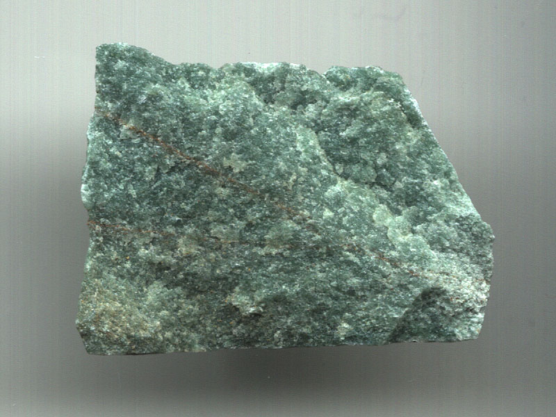 I took this photograph